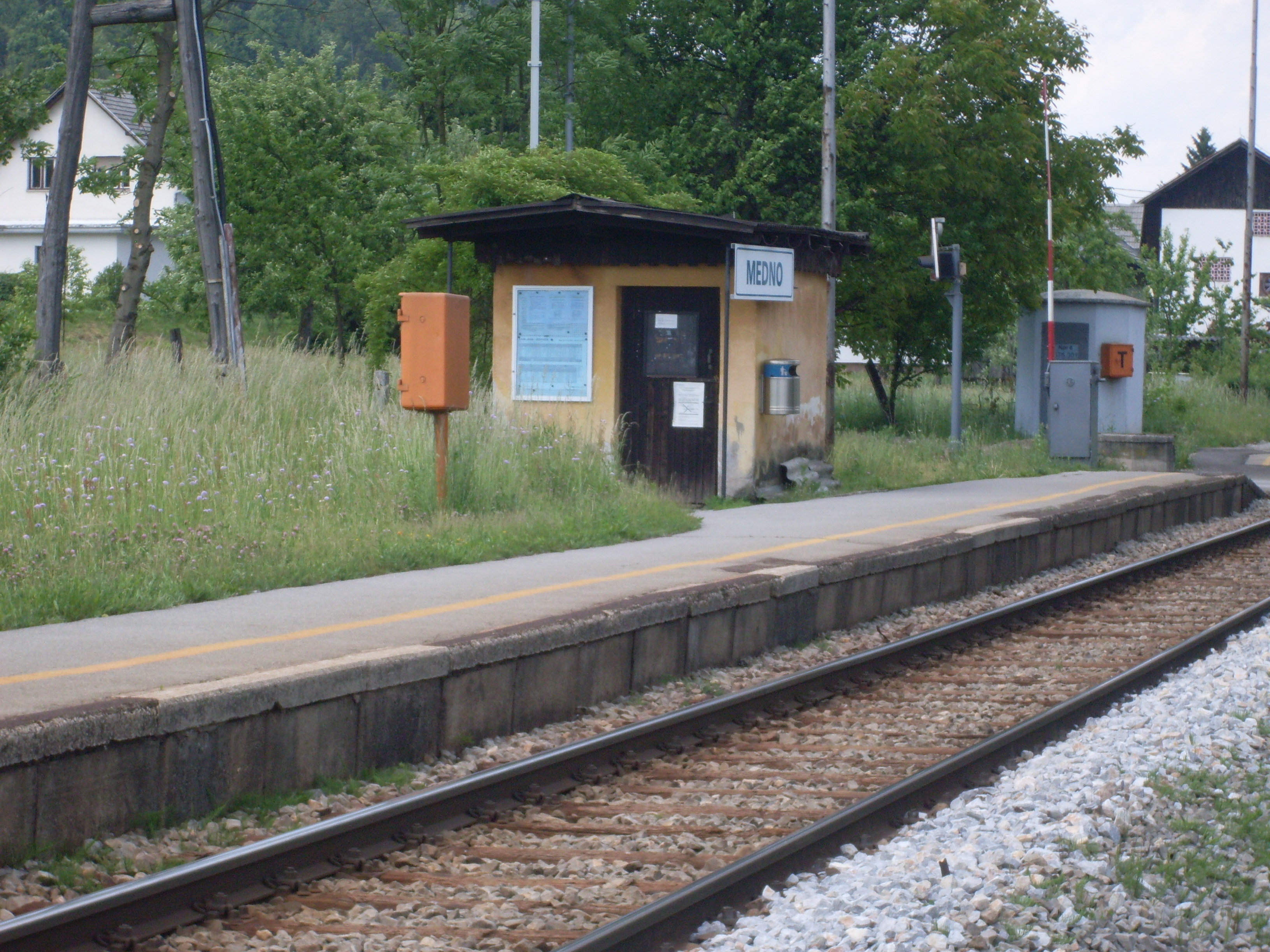 Railway halt in Medno, Slovenia